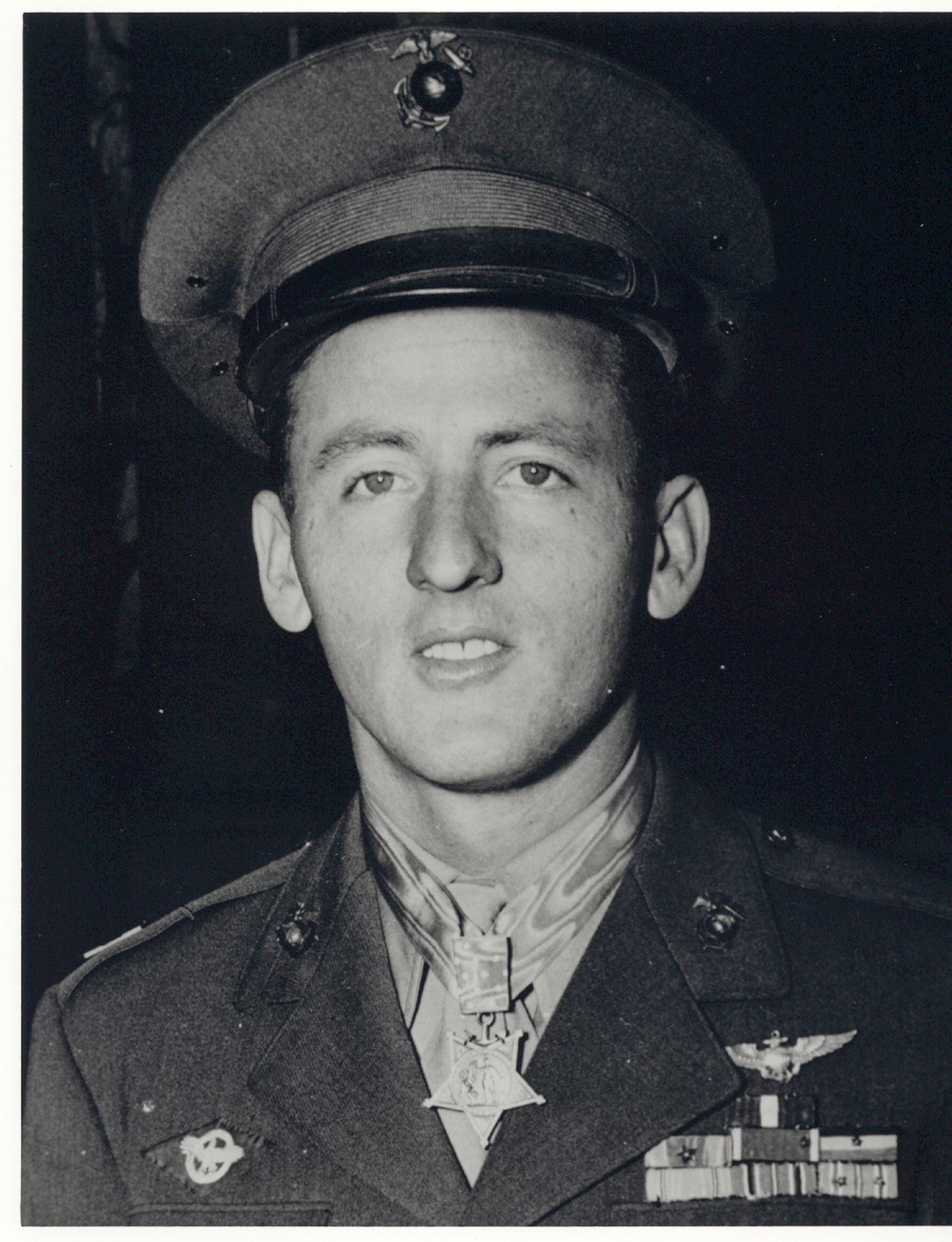 Jefferson J. DeBlanc, USMC, Medal of Honor recipient; hi-res image from United States Marine Corps, History Division (